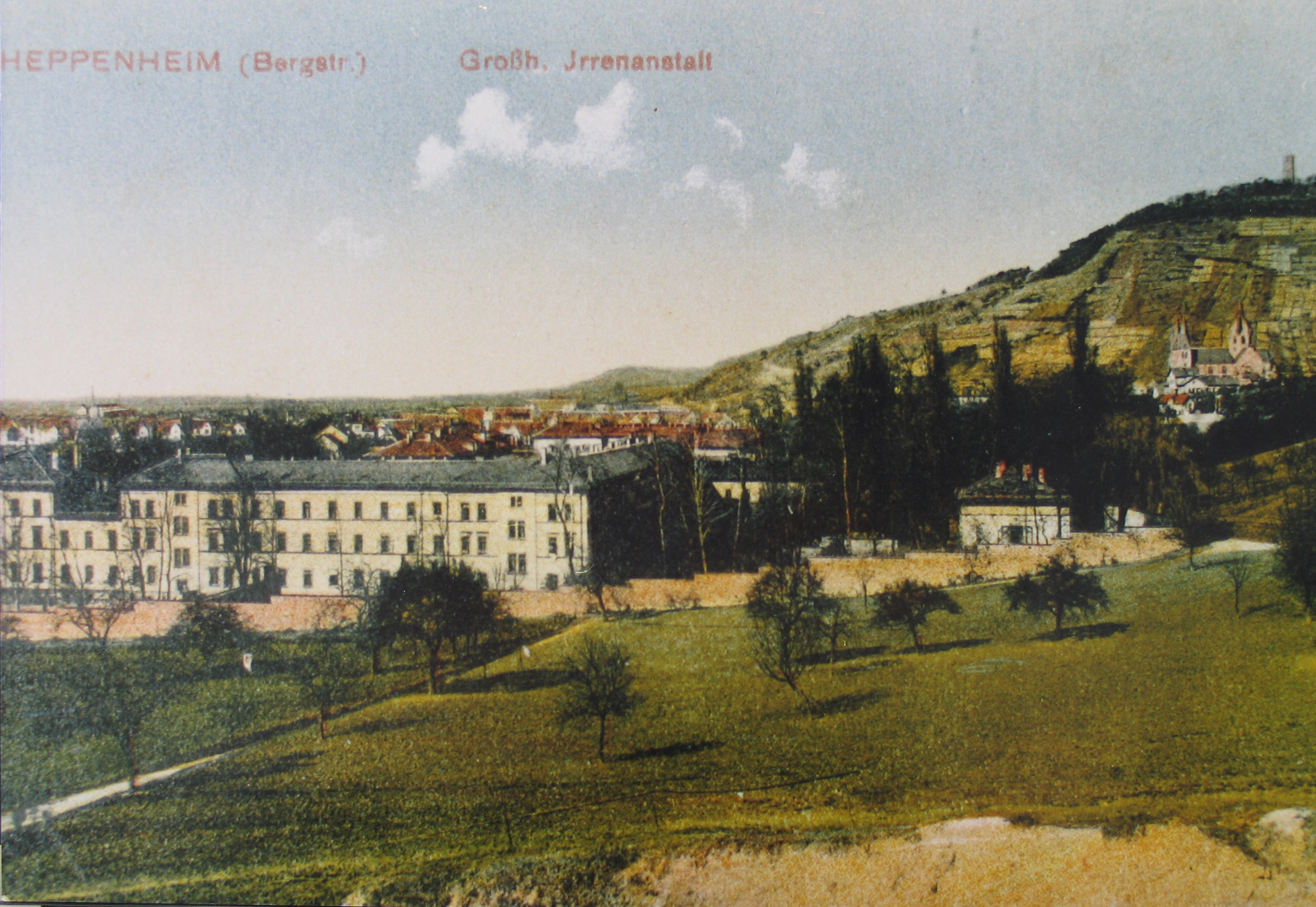 Partial view of the asylum near Heppenheim (Bergstraße) as seen from south.